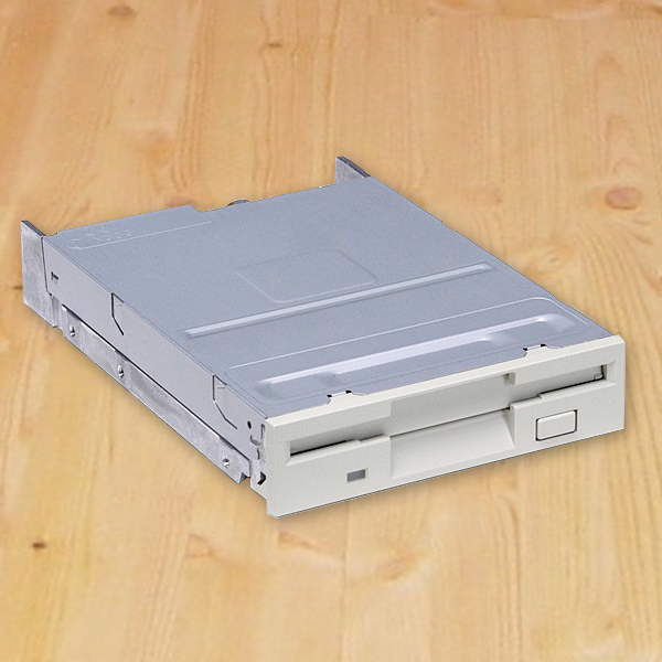 3,5" floppy disk drive